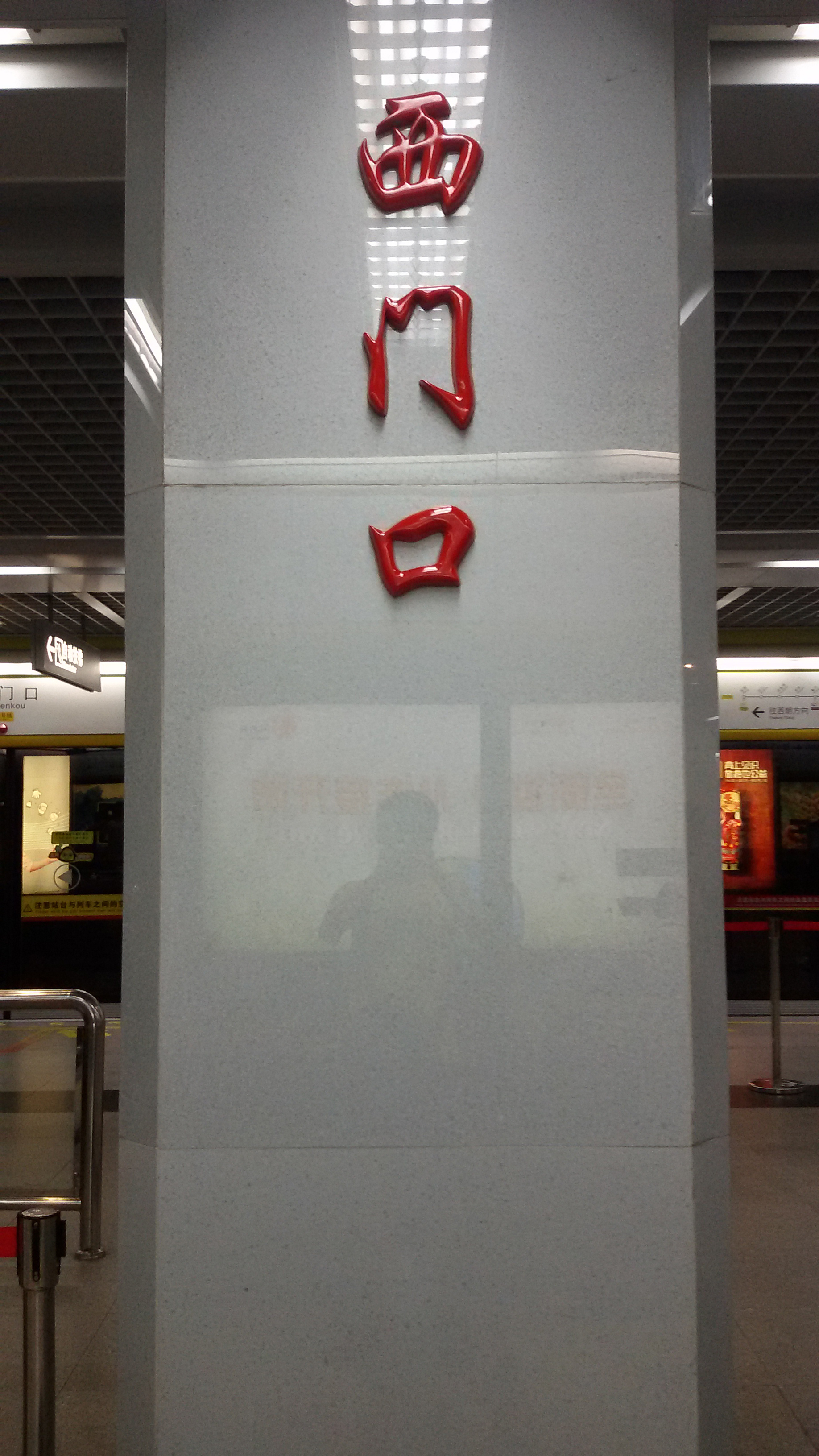 WORD on PILLAR for Ximenkou Station in Guangzhou Metro